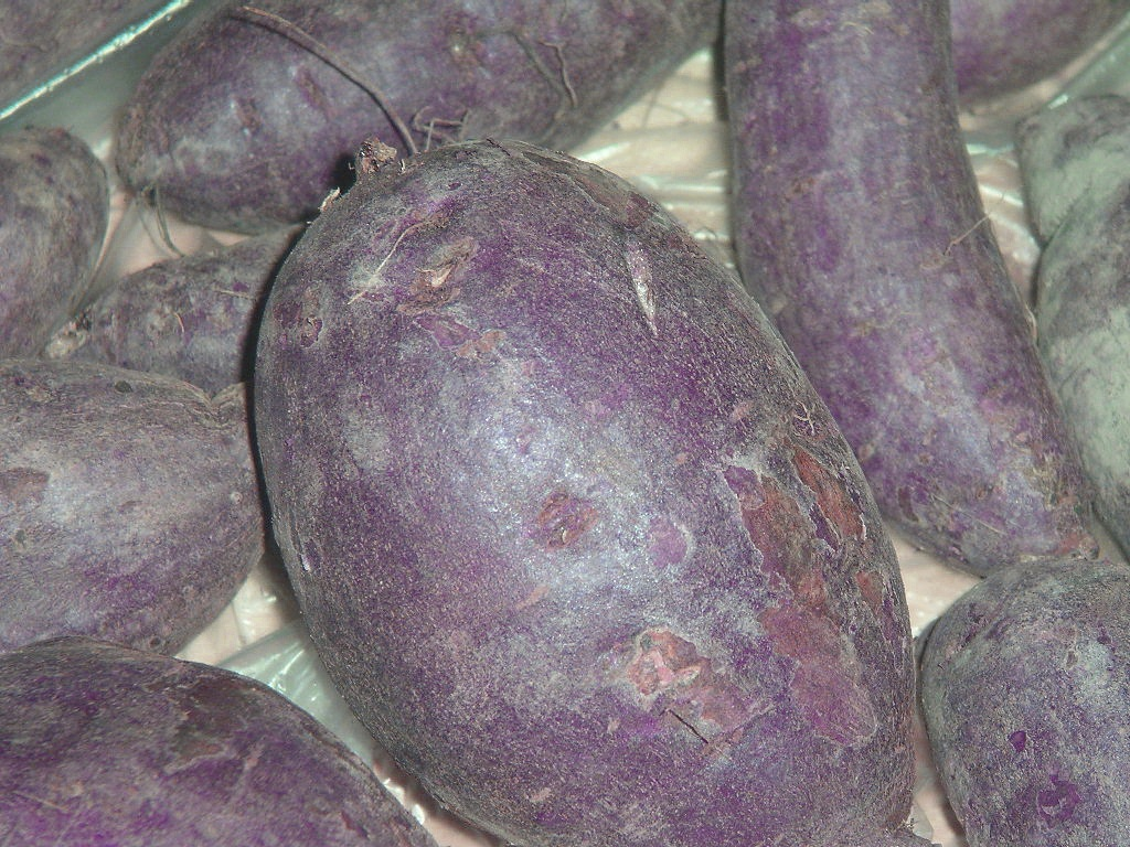 The Purple Sweet Potato variety (also called satsuma), not only is the skin colored purple, but even the flesh is purple. It may look like a potato, but it is actually a sweet potato. Taken fours year ago.